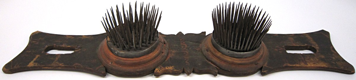 A flax hatchel, or heckling comb. Minnesota Historical Society.